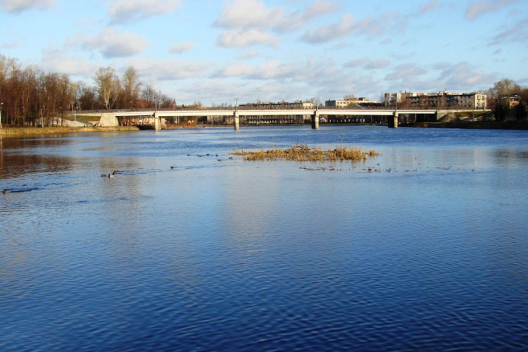 Lovat' River in Velikiye Luki, Russia.